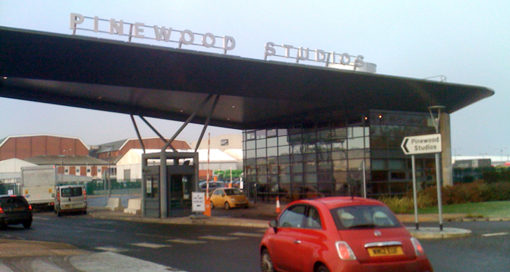 Pinewood Studios